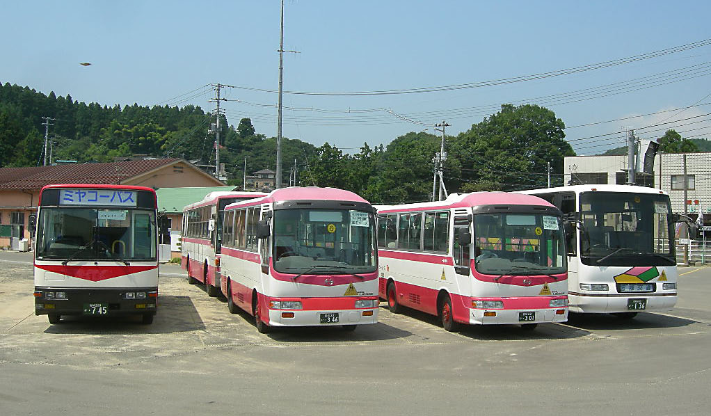 Miyakoh Bus Shiroishi Depot